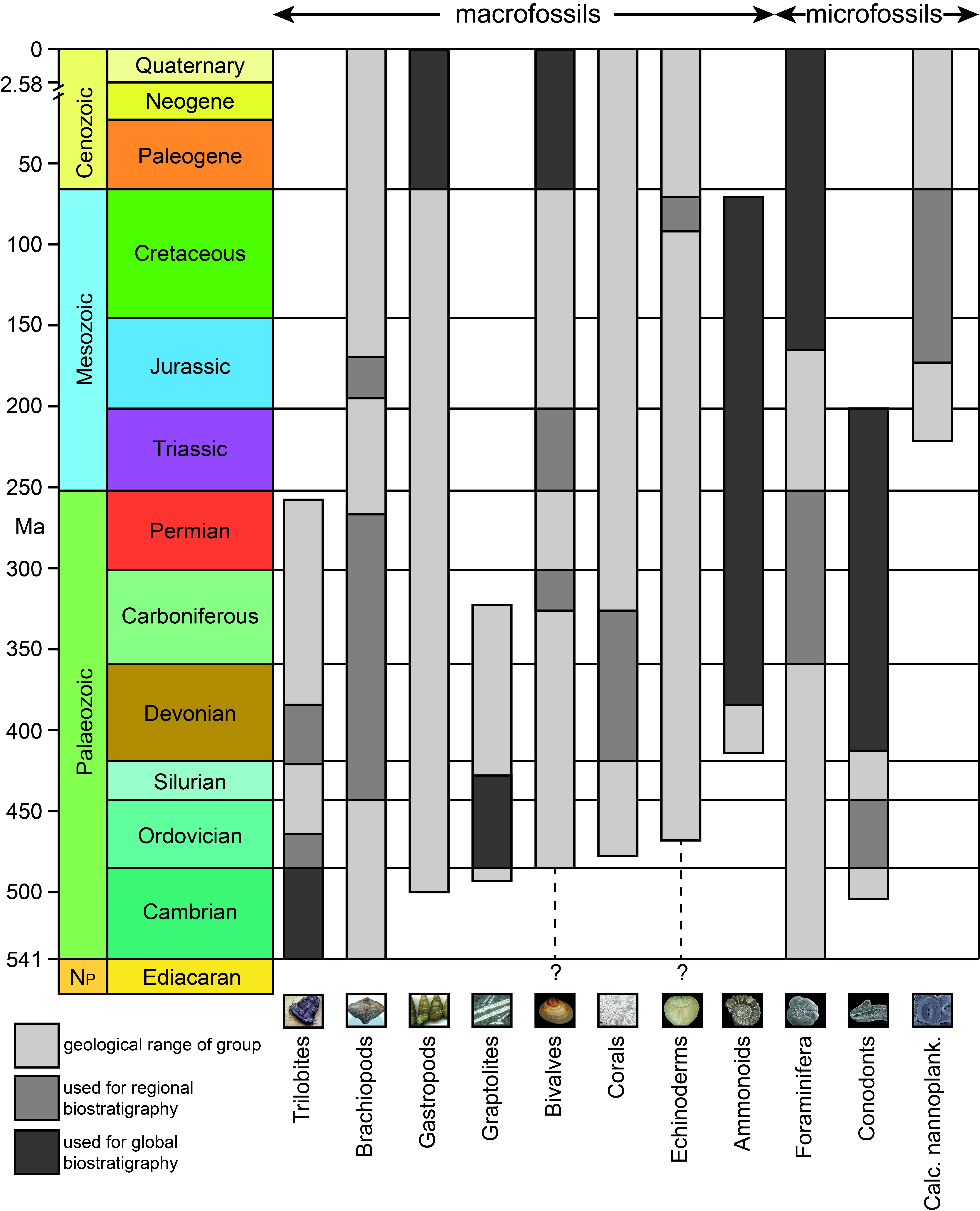 Shows the most commonly used index fossils in biostratigraphy from the Cambrian onwards. I tentatively extended the range of bivalves and echinoderms into the Ediacaran (Neoproterozoic) based on some putative finds, although these groups are not used in biostratigraphy from that Period.